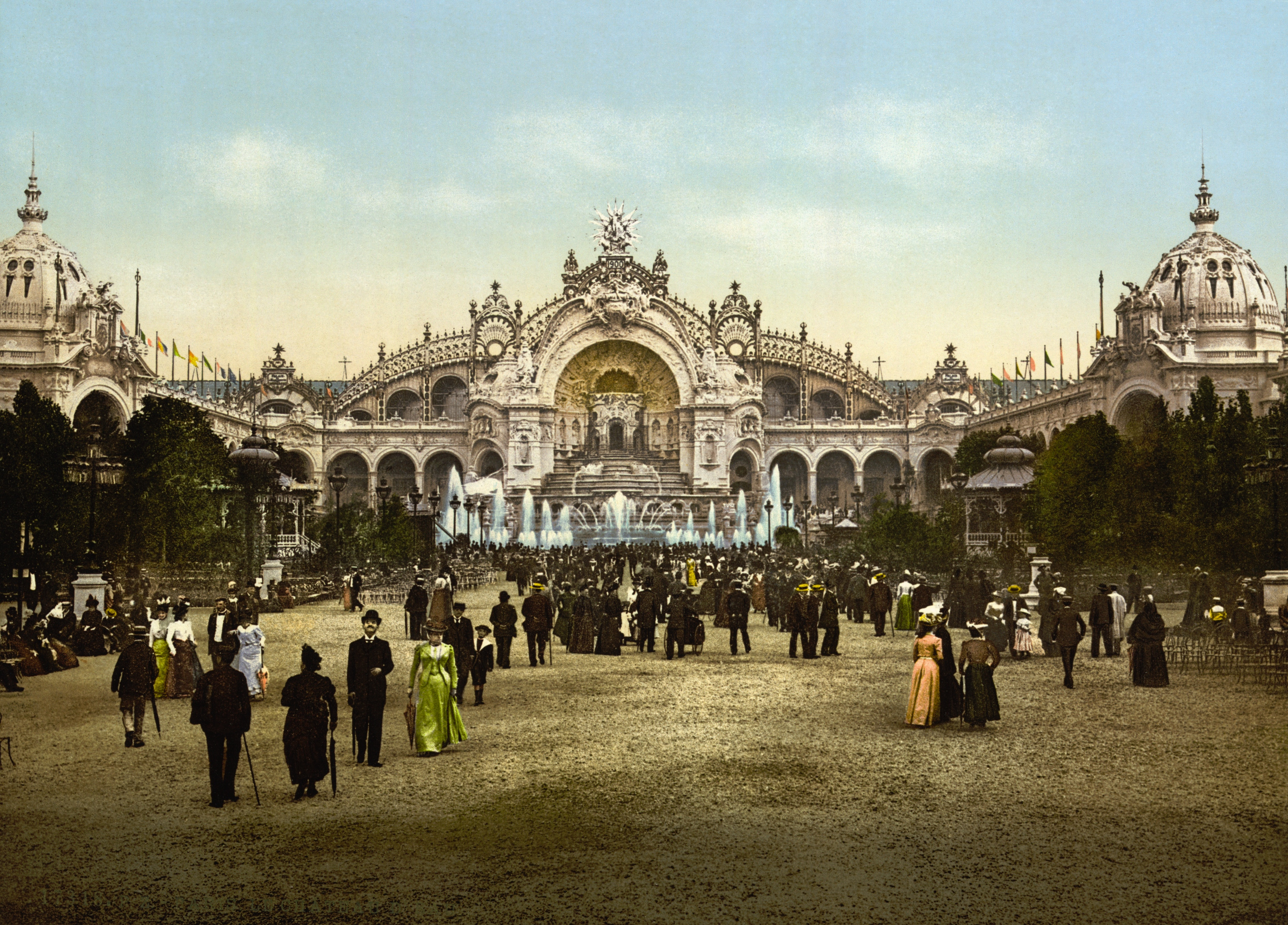 Le Château d'eau and plaza, Exposition Universal, 1900, Paris, France